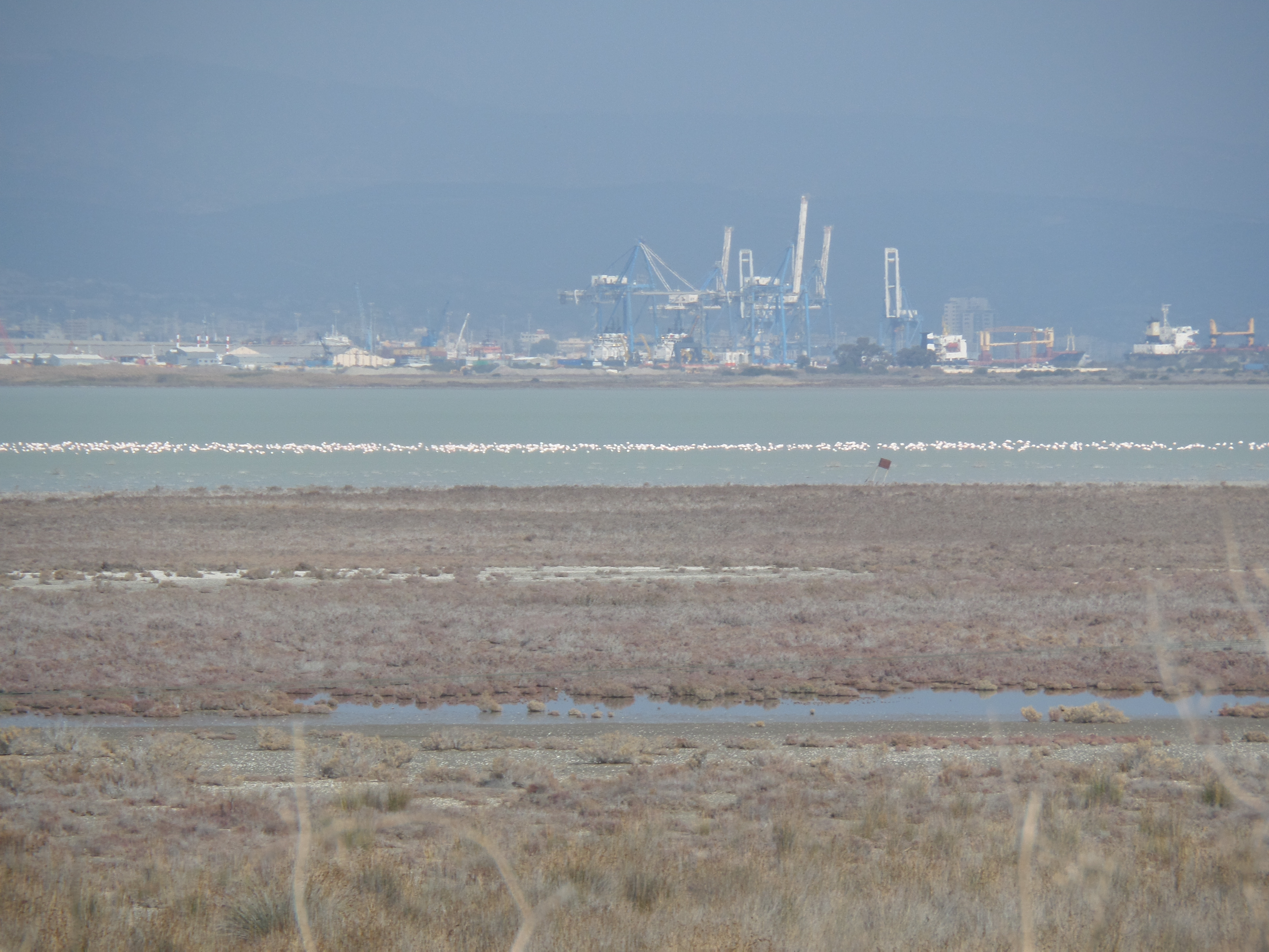 Limassol Salt Lake